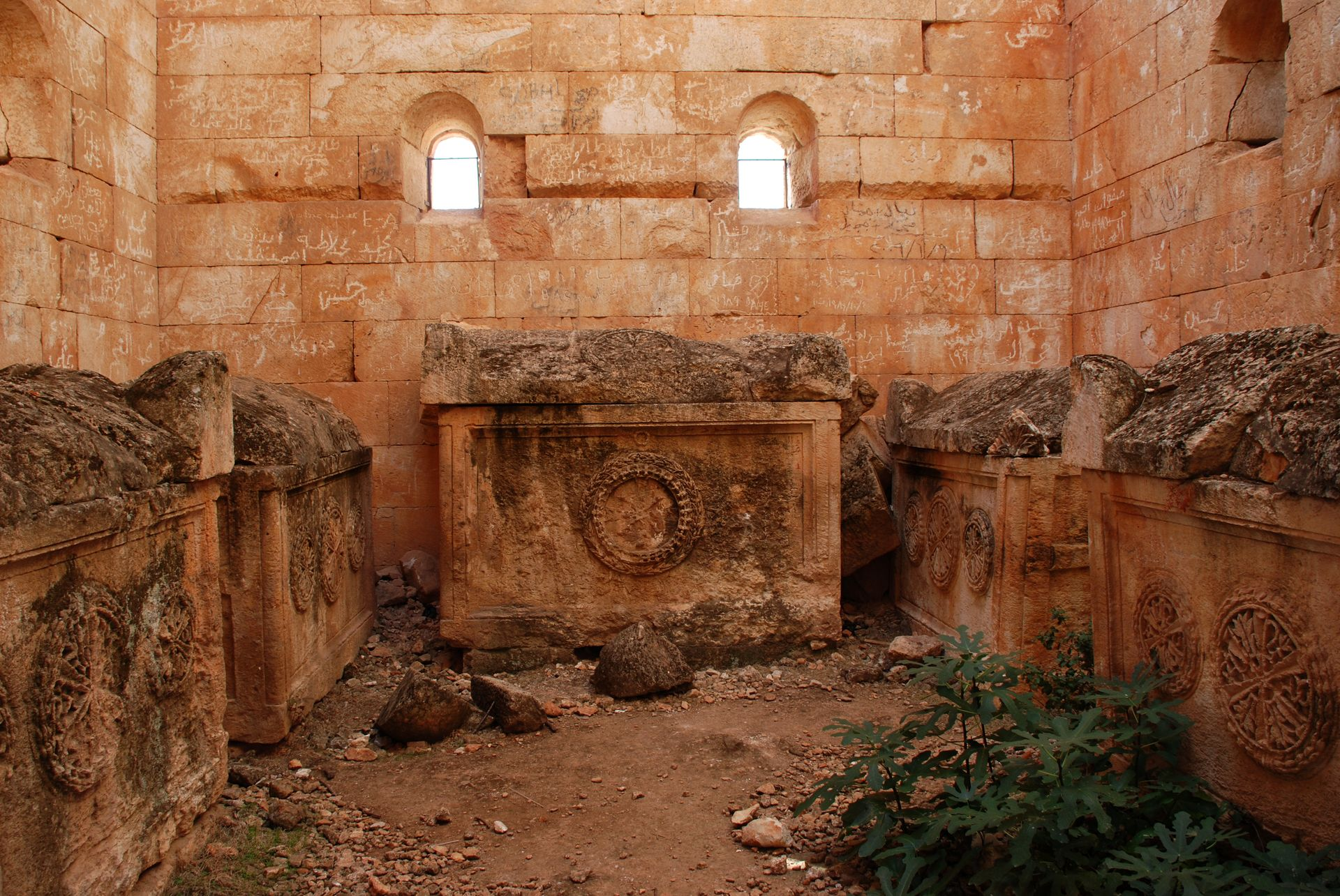 Al-Bara, dead city in Syria, inside big pyramid tomb